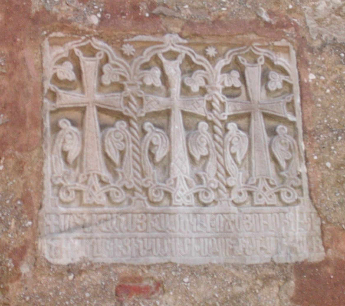 Khachkar in the wall of Armenian Church of St. Serge (Surb Sarkis), Theodosia, Crimea